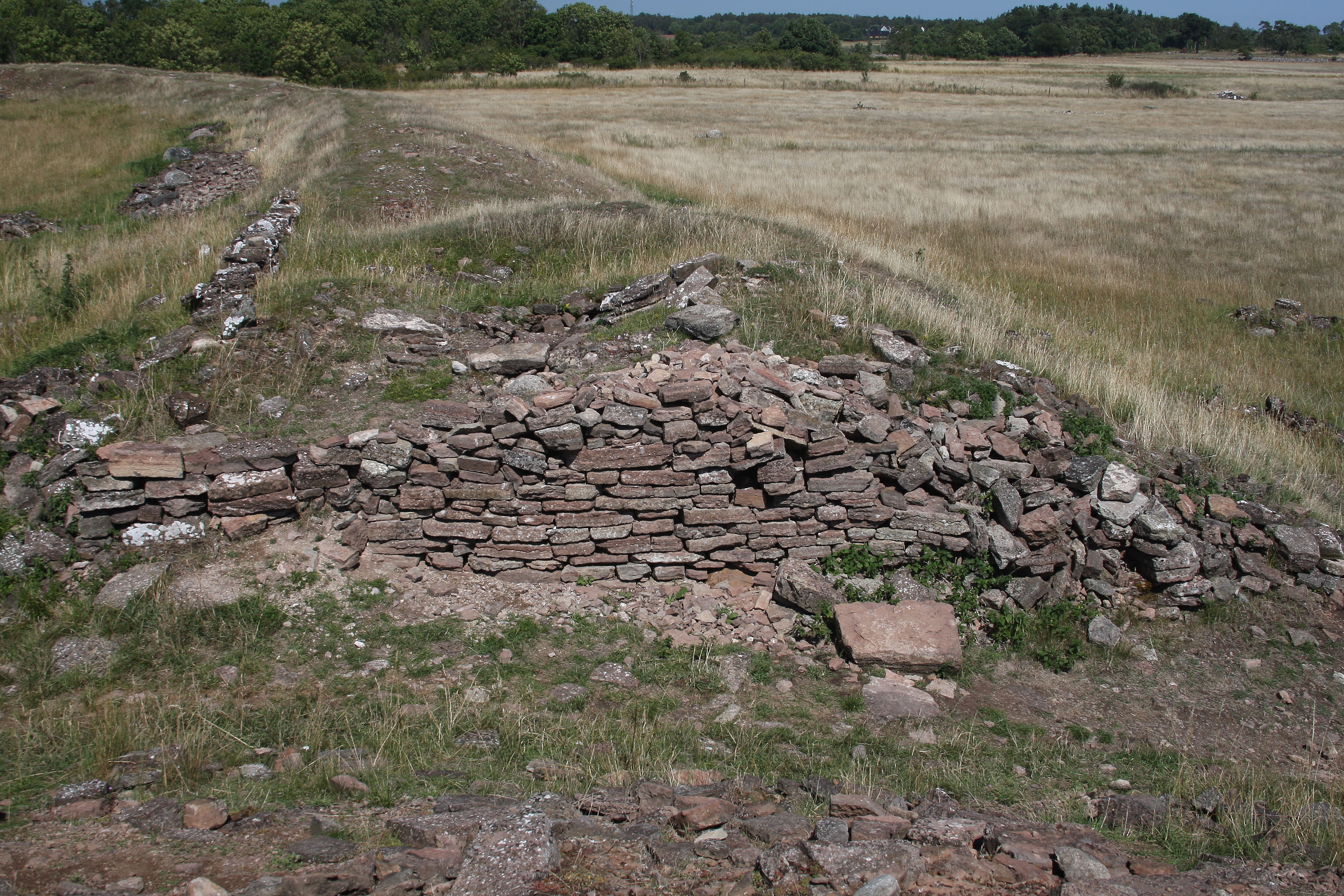 Entrance of Bårby fortification on Öland